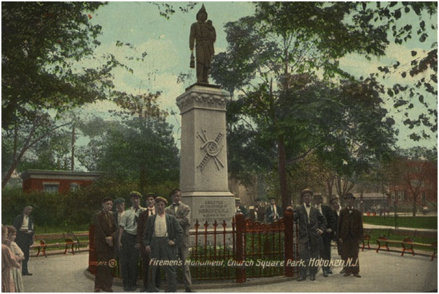 Postcard of Firefighters to be used in article Firemen's Monument from 1905